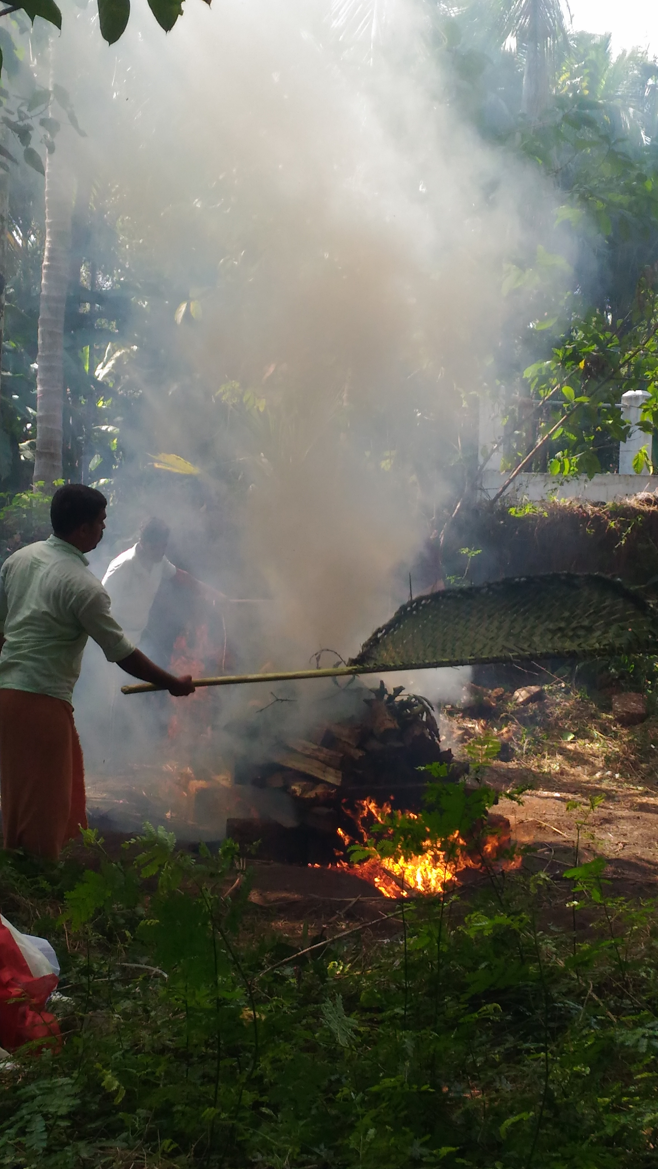 funeral pyre